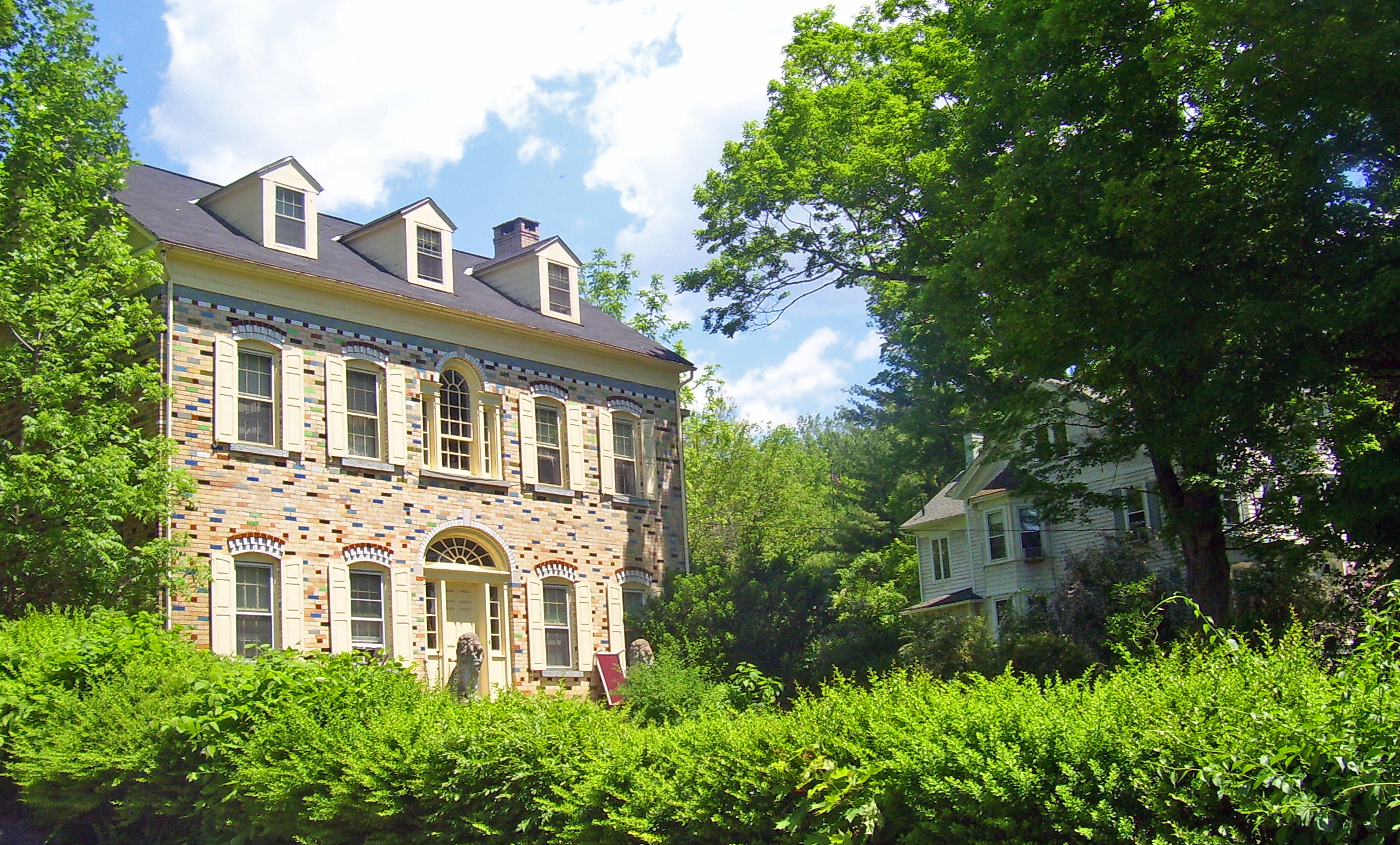 Houses built by members of the family of Jacob Lowe Snyder in the Snyder Estate Natural Cement Historic District, Rosendale, NY, USA